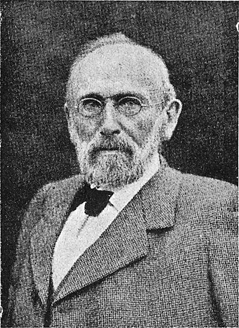 Gustav Adolf Hagemann